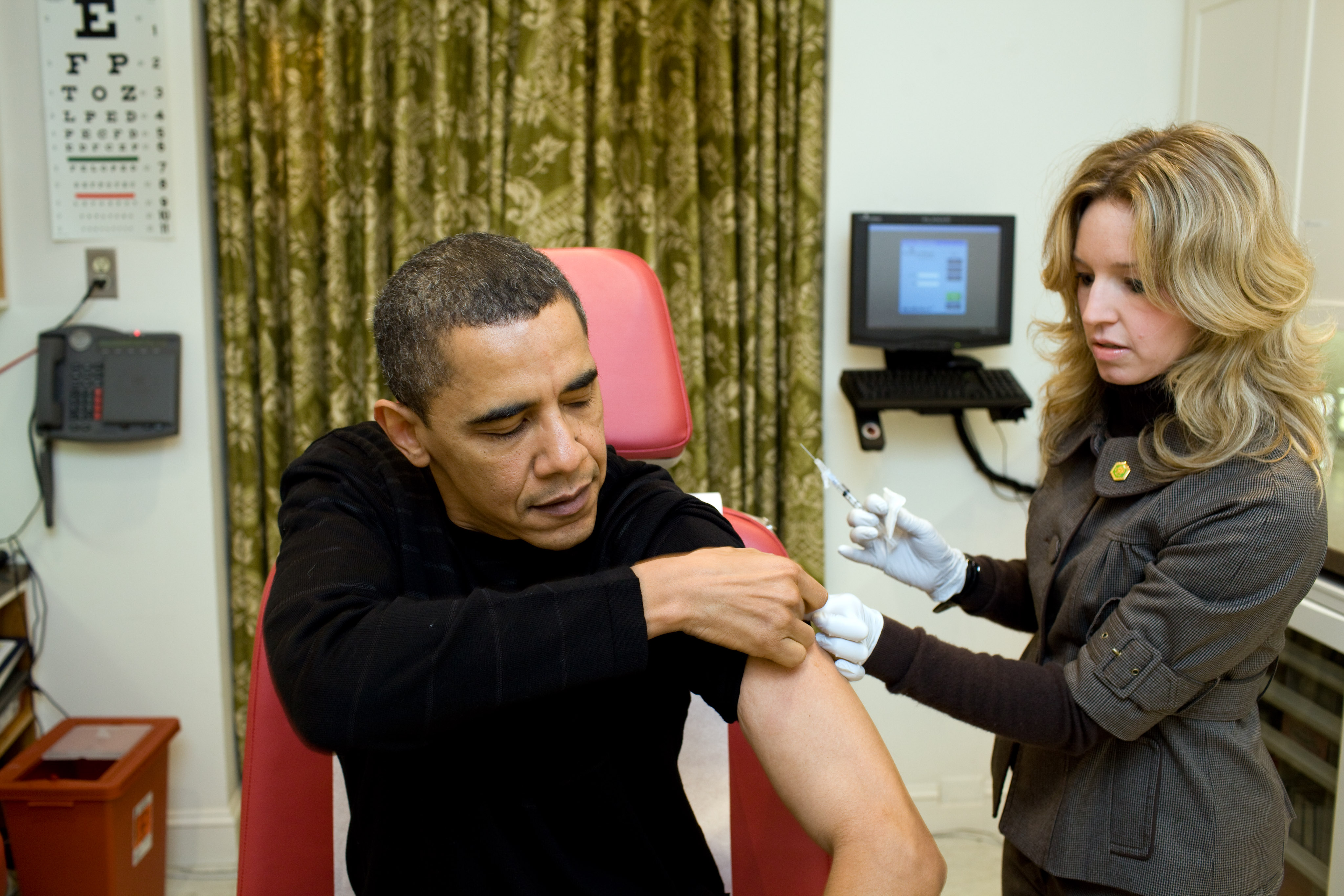 A White House nurse administers the H1N1 vaccine to President Barack Obama at White House Medical Unit at the White House in Washington, D.C., on December 20, 2008.